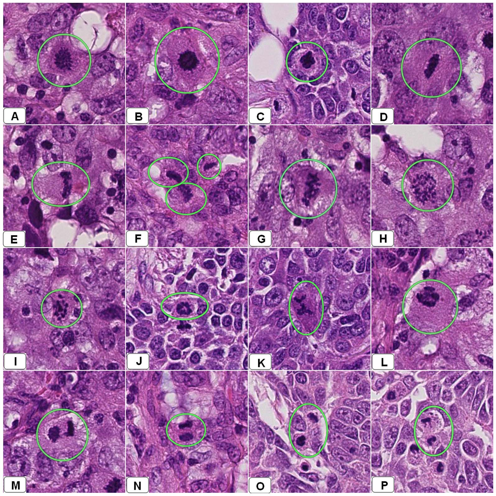 Snapshots from several WSI of several breast resections diagnosed previously as an infiltrative ductal carcinoma using a light microscopy. These snapshots showing different appearances of mitotic figures encircled by green circles. Panels A–C show cells in early metaphase. Panels D–G show different forms of mitotic division in late metaphase. Panel H–L shows different forms of anaphase. Panels M–P show cells in telophase.